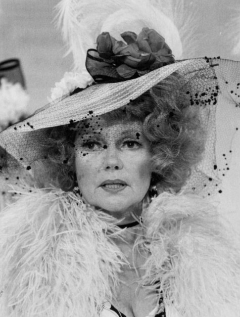 Publicity photo from Rowan & Martin's Laugh-in. Pictured is Rita Hayworth reprising her Sadie Thompson role on the television show.